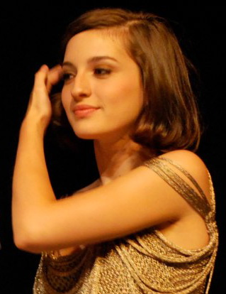 María Valverde at the Toronto International Film Festival in 2009